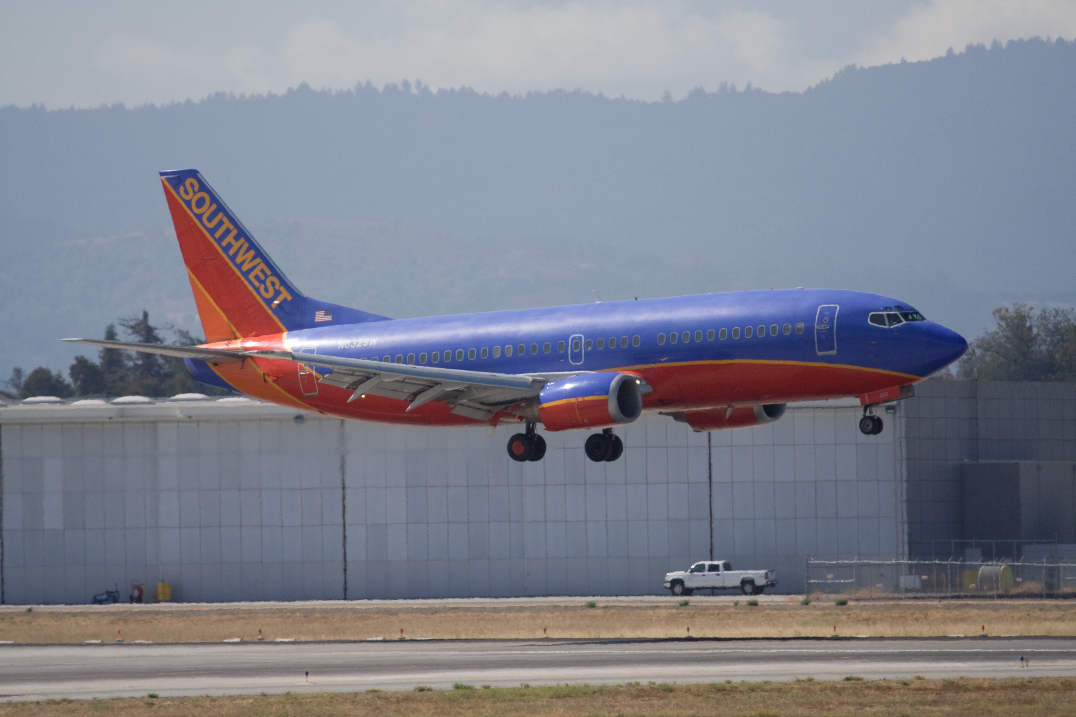 Picture of Southwest Airlines's Boeing 737-300 tail number N632SW in 2007, which in 2011, experienced rapid depressurization during Southwest Airlines Flight 812.